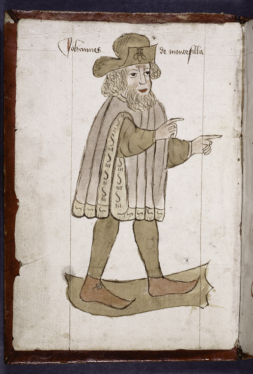 Full-page portrait of Sir John Mandeville.